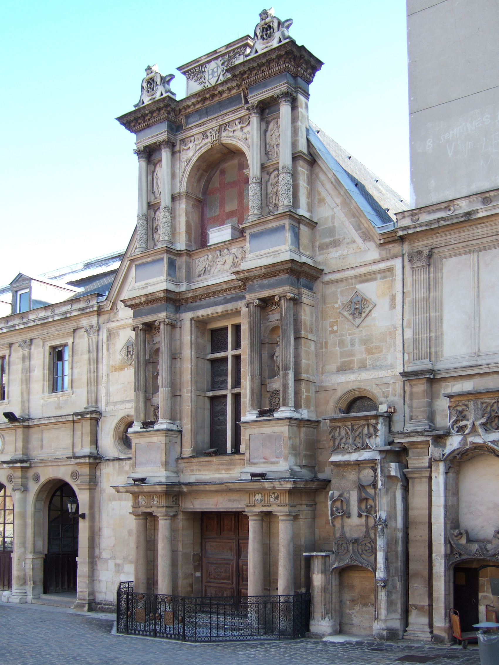 Frontispiece of the Château d'Anet, designed c. 1545–1550 by the architect Philibert de l'Orme. In the early 19th century, at the time of demolition of much of the chateau, the frontispiece was moved by Alexandre Lenoir and reinstalled at his Musée des Monuments Français in Paris. After the museum's closure, the structure was inherited by the École des Beaux-Arts, the new occupant of the premises.